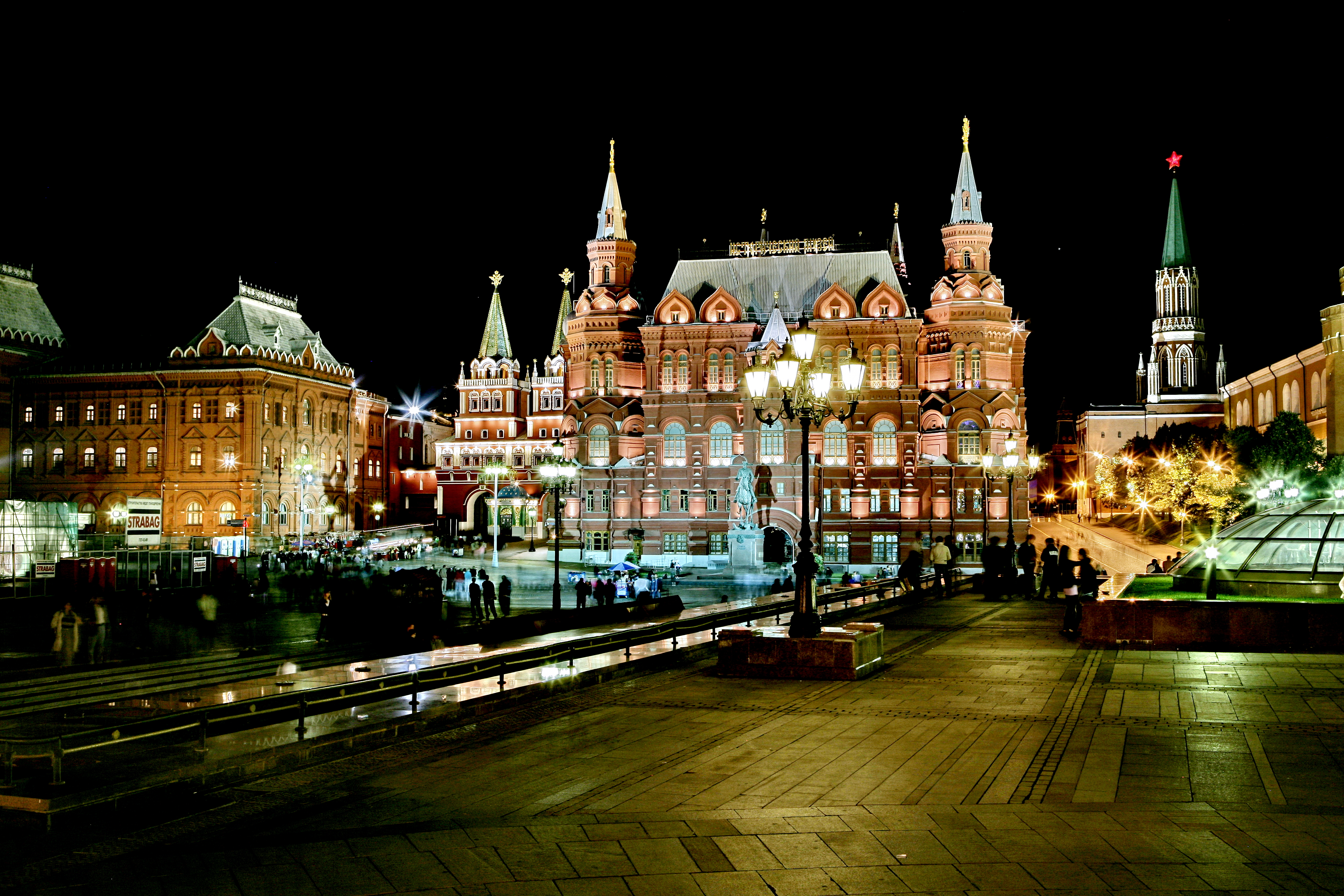 The State Historical Museum at Manezhnaya Square in the Kremlin, Moscow, Russia, illuminated at night